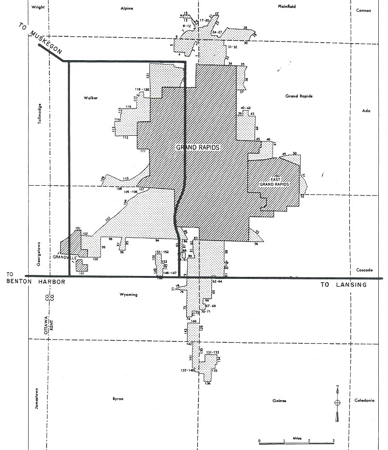 City map from the 1955 "Yellow Book" of Interstate Highway System plans Interstates in today's terms (very rough assignment; part of what corresponds to I-96 is actually I-296, for example) I-96 I-196 I-296